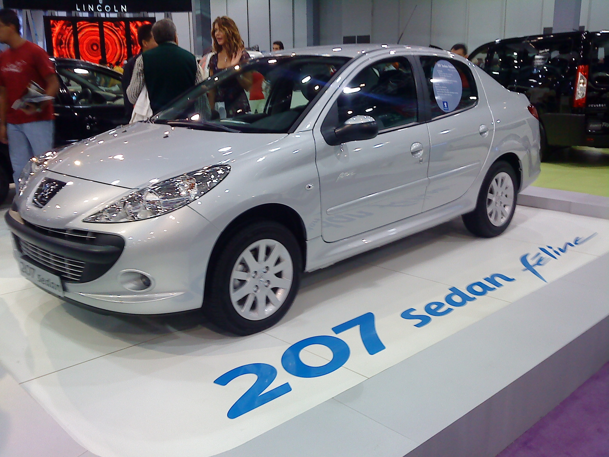 Peugeot 207 Sedan Feline at the 2008 SIAM.